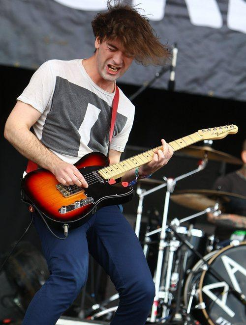 James Brown playing at Reading Festival in 2012.